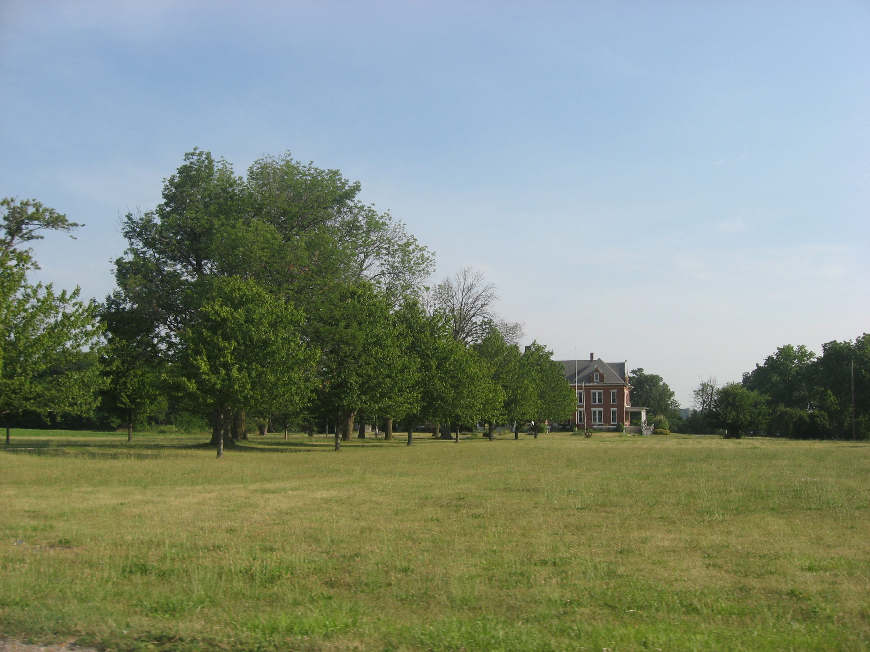 Roadside view of the White County Asylum, located at 5271 Norway Road north of Monticello in Union Township, White County, Indiana, United States. Built in 1908, it is listed on the National Register of Historic Places.